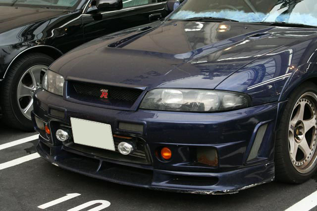 Nismo 400R. Taken by Eric Hess. This photo was taken by me in Numazu, Shizuoka. It was located in a parking lot near the nakamise.